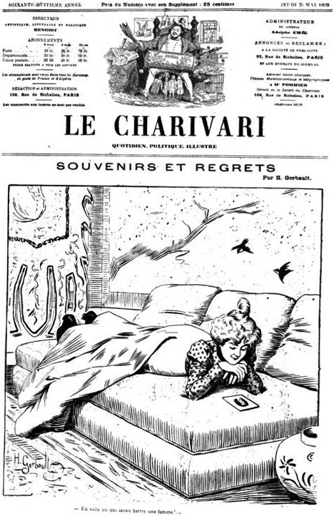 Le Charivari. Titre : Souvenirs et regrets.